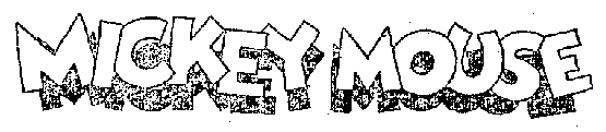 This is a picture of the original Mickey Mouse mark filed in 1928 by Walter E. Disney. The origins of this stylized trademark is Monday, May 21, 1928, when a U.S. federal trademark registration was filed for this exact Mickey Mouse mark. This trademark is owned by Disney Enterprises, Inc. of Burbank, California.[1] The trademark is filed in the category of Lace, Ribbons, Embroidery and Fancy Goods.[2] The description provided to the USPTO for is motion pictures reproduced in copies for sale.[3] The USPTO has given the trademark serial number of 71266717. The current status of the trademark is registered and renewed.[4] ↑ ↑ ↑ ↑